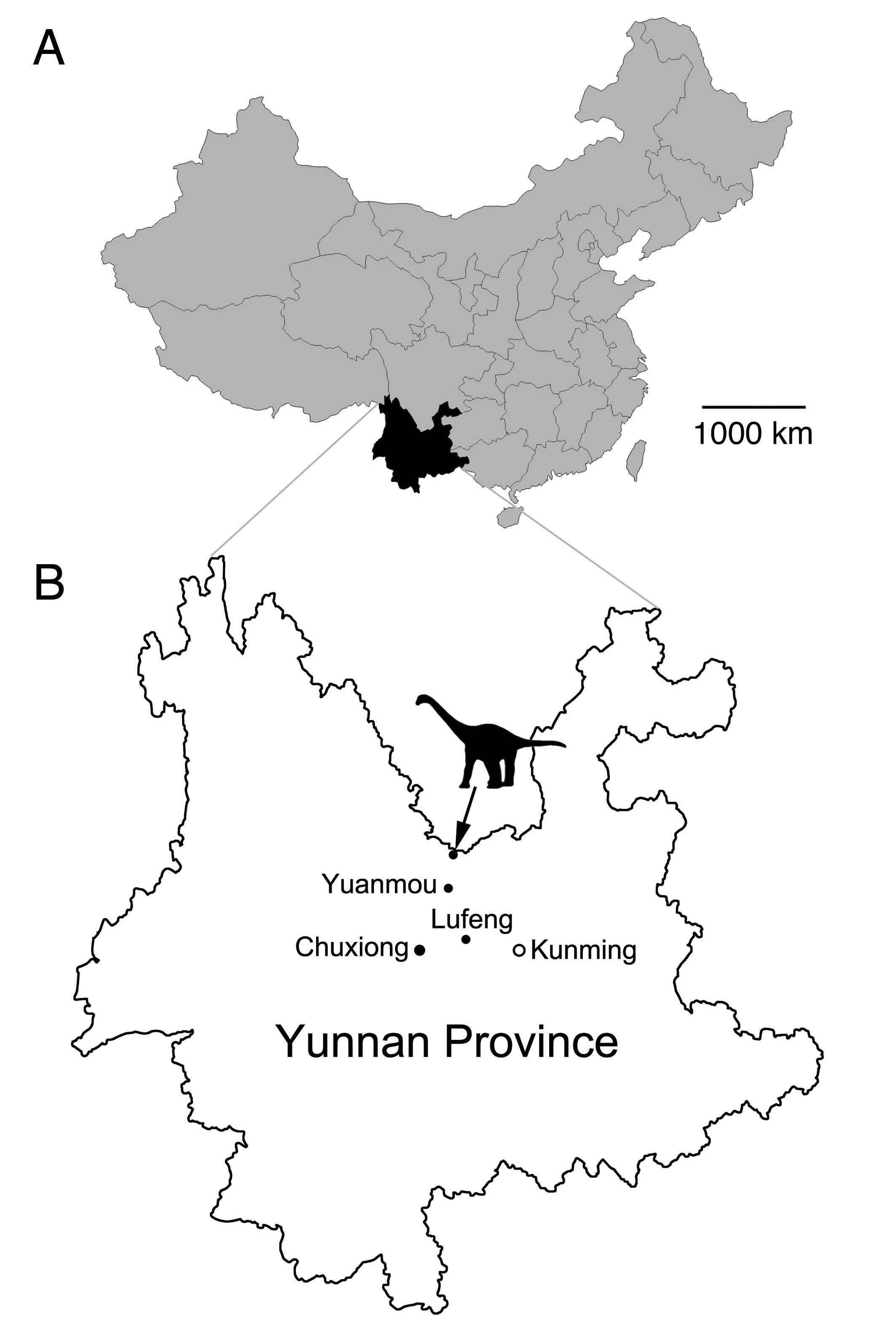 Geographical information on the locality of Nebulasaurus. A, map of China showing Yunnan Province (shaded black). B, map of Yunnan Province showing the locality indicated by a silhouette of a sauropod.